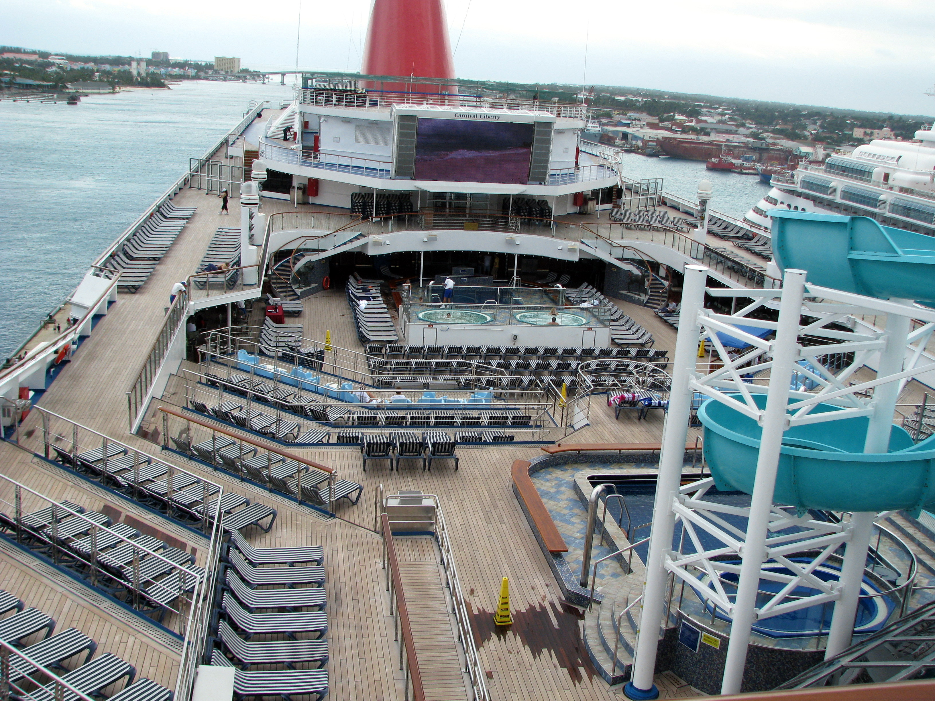 The sun deck on Carnival Liberty